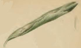 Stainton’s Natural History of the Tineina (1855–1873): Caloptilia elongella a longitudinally rolled alder leaf